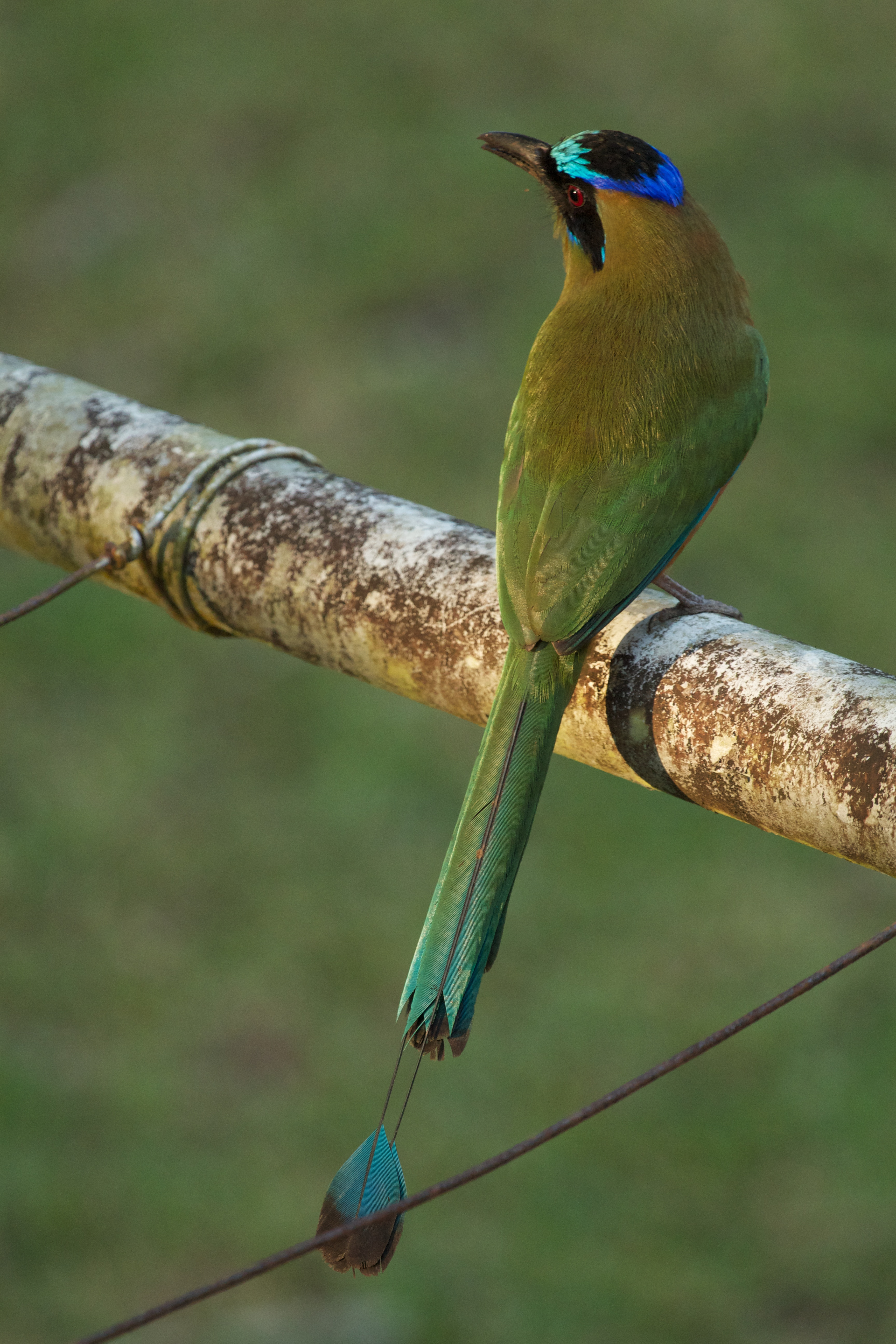 Whooping Motmot Momotus subrufescens on our washing-line Gamboa, Panama